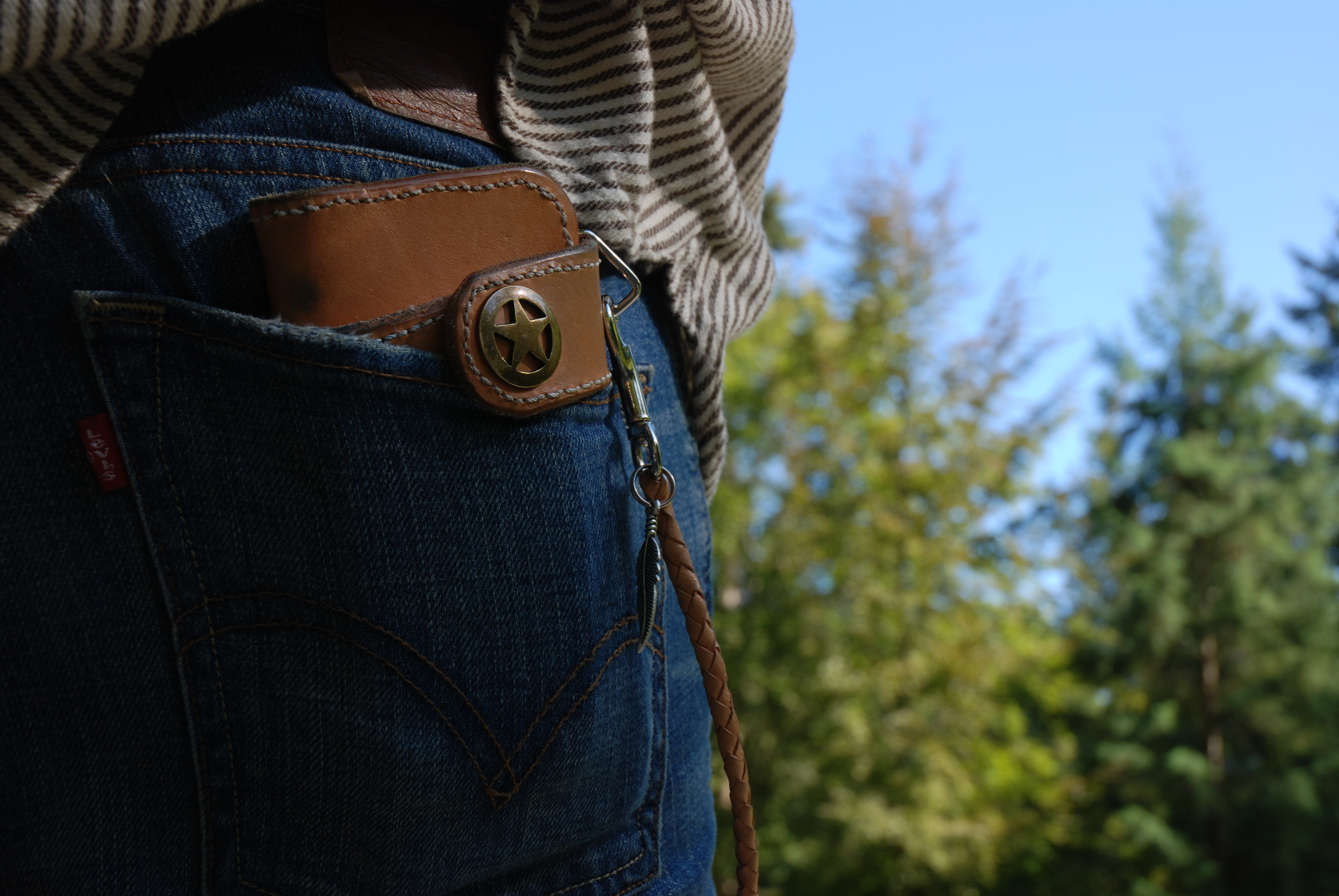 Kyle made this wallet himself. He will have a store up soon. beautiful work.